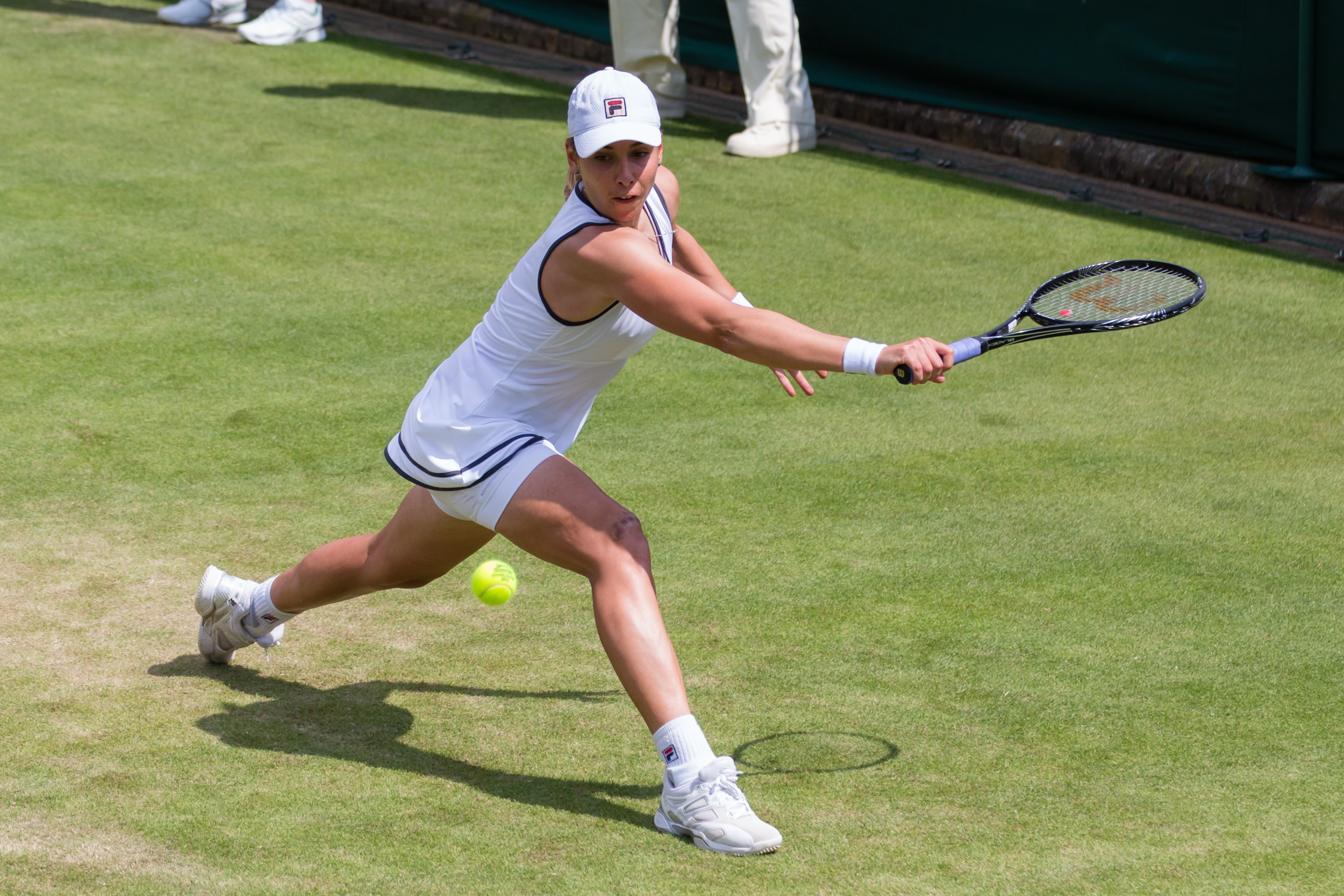 Marina Erakovic in her first round match at the 2013 Wimbledon Championships.